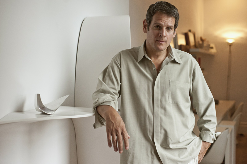 Photographer by Natalia Ilina as a part of documentary filmed by Maxim Nilov